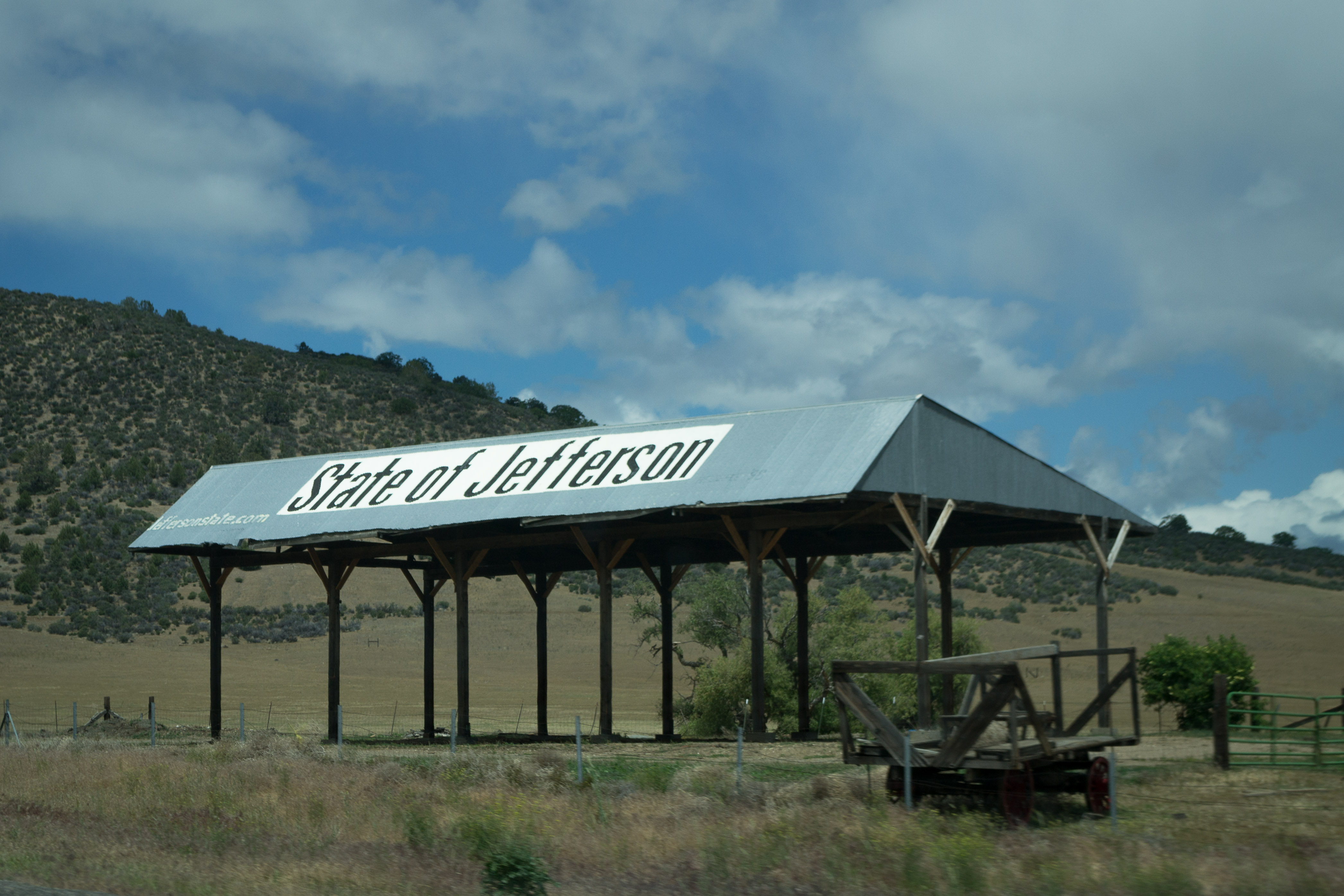 A barn near Yreka, California, and the proposed capitol of the State of Jefferson